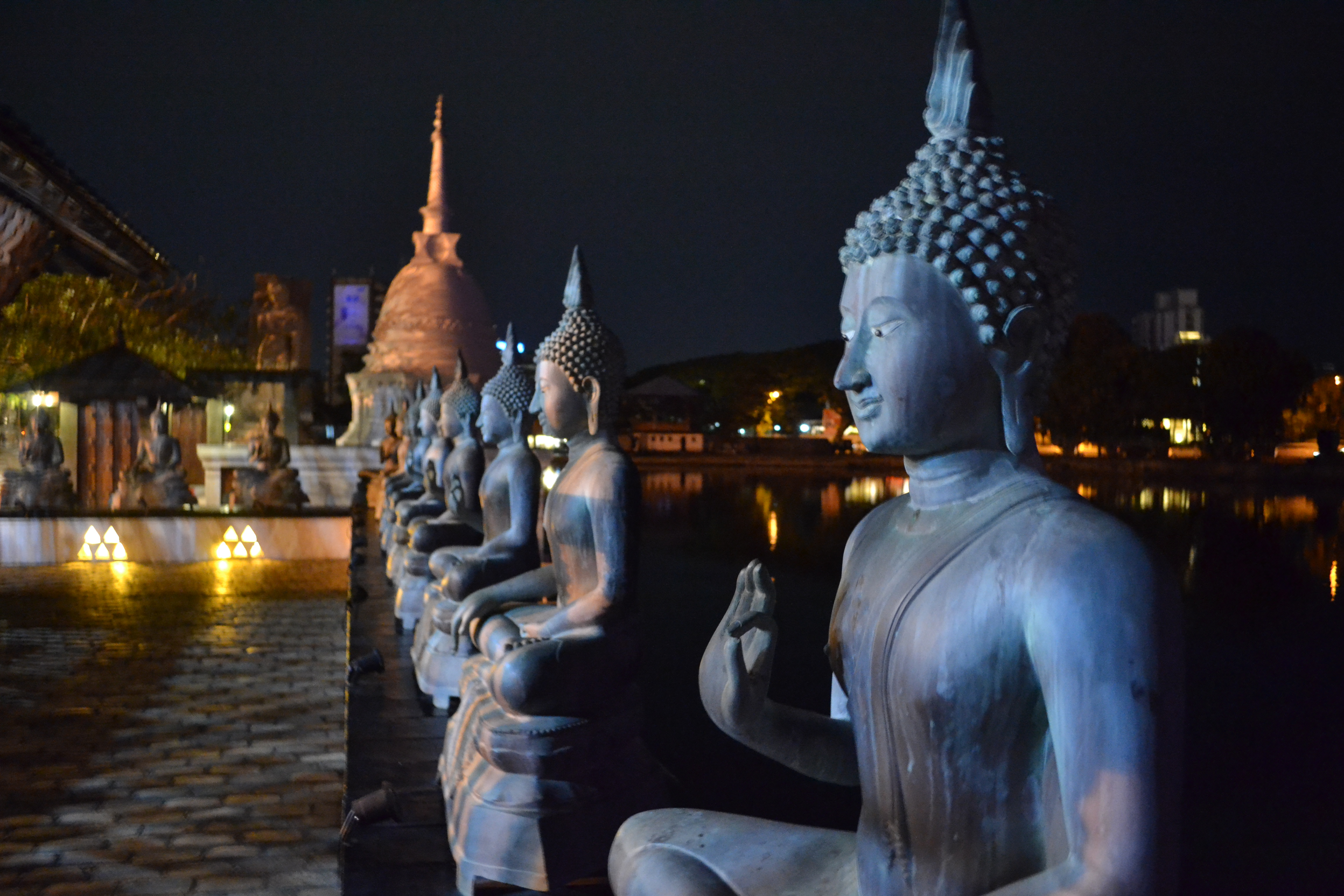 at Gangarama temple - Colombo Sri Lanka